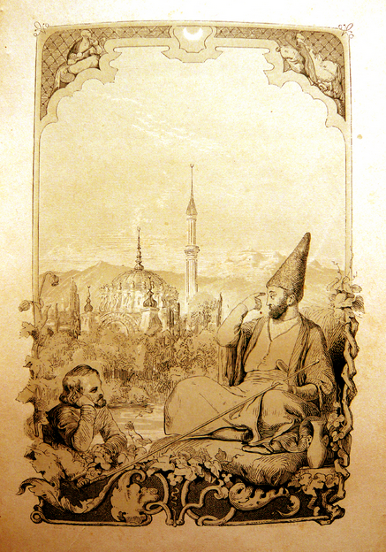 Vazeh and Bodenstedt. Illustration for «Tausend und ein Tag im Orient» (1850)